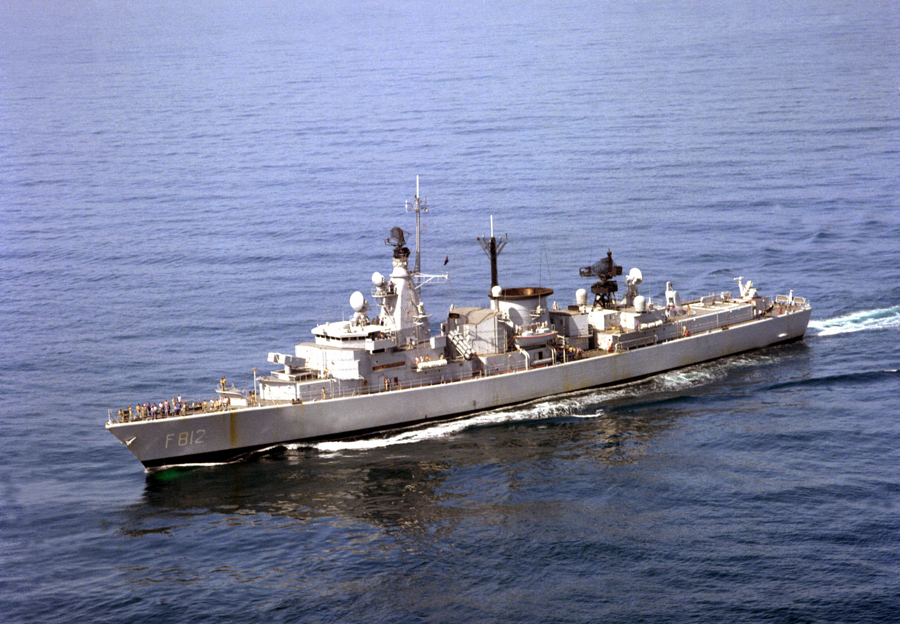 A port bow view of the Dutch frigate F812 Jacob Van Heemskerck underway during Operations Desert Shield/Storm.